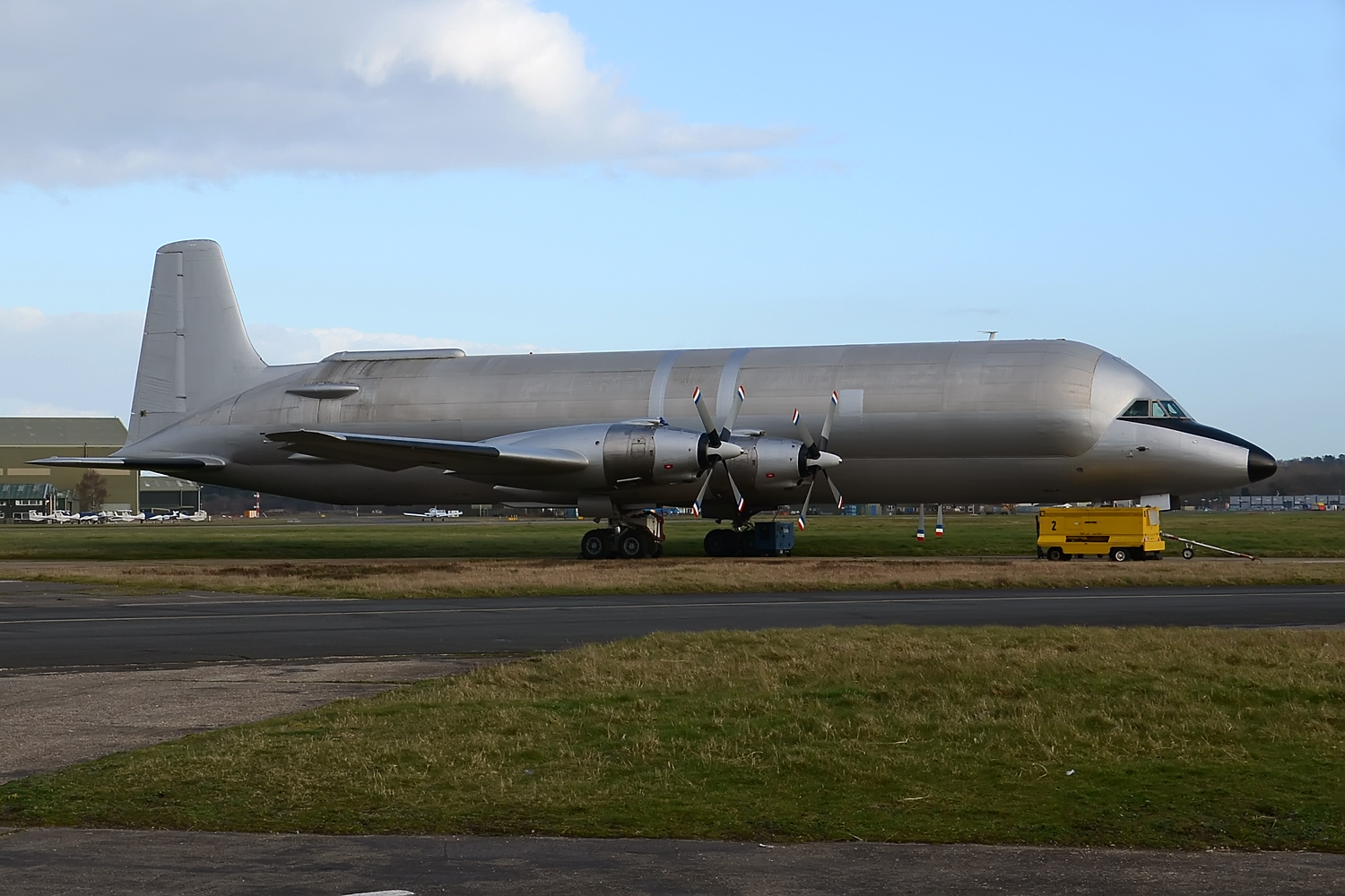 Bournemouth, Hurn - Looking good after many years in storage and an uncertain future, this old CL-44 is near airworthy. Not sure if/when she will take to the air. Thanks to fellow Flickr'r, Tony Guest for inspiration to get down to Bournmouth to see this classic propliner. Would love to hear those RR Tyne's powered up.